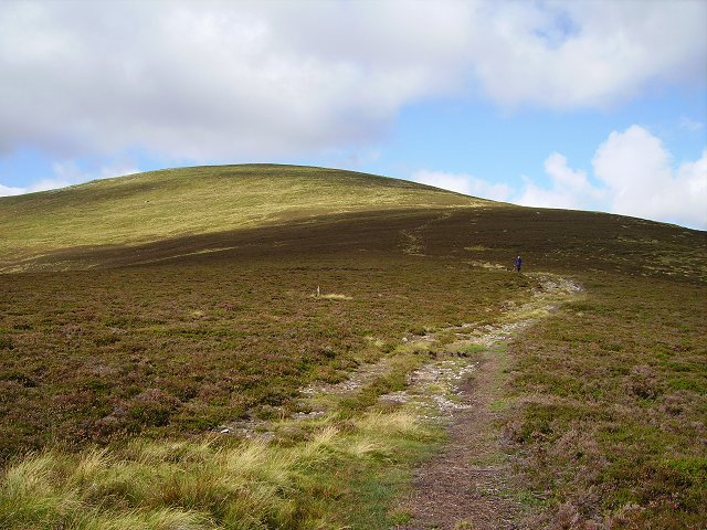 Shank of Driesh. The south ridge of Driesh - the gentle side of the hill.